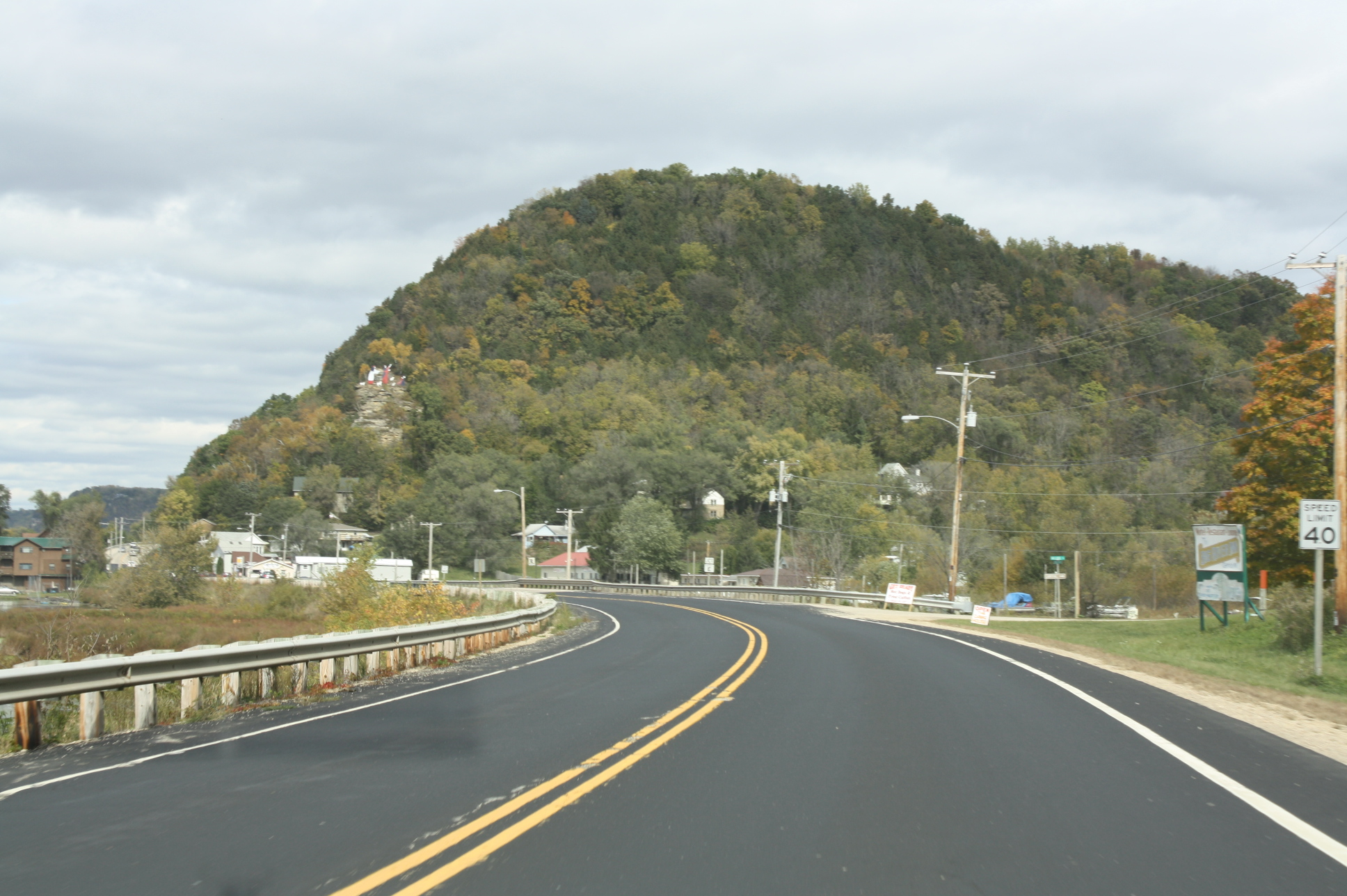 Looking north at a panorama of Lynxville, Wisconsin along Wisconsin Highway 35.